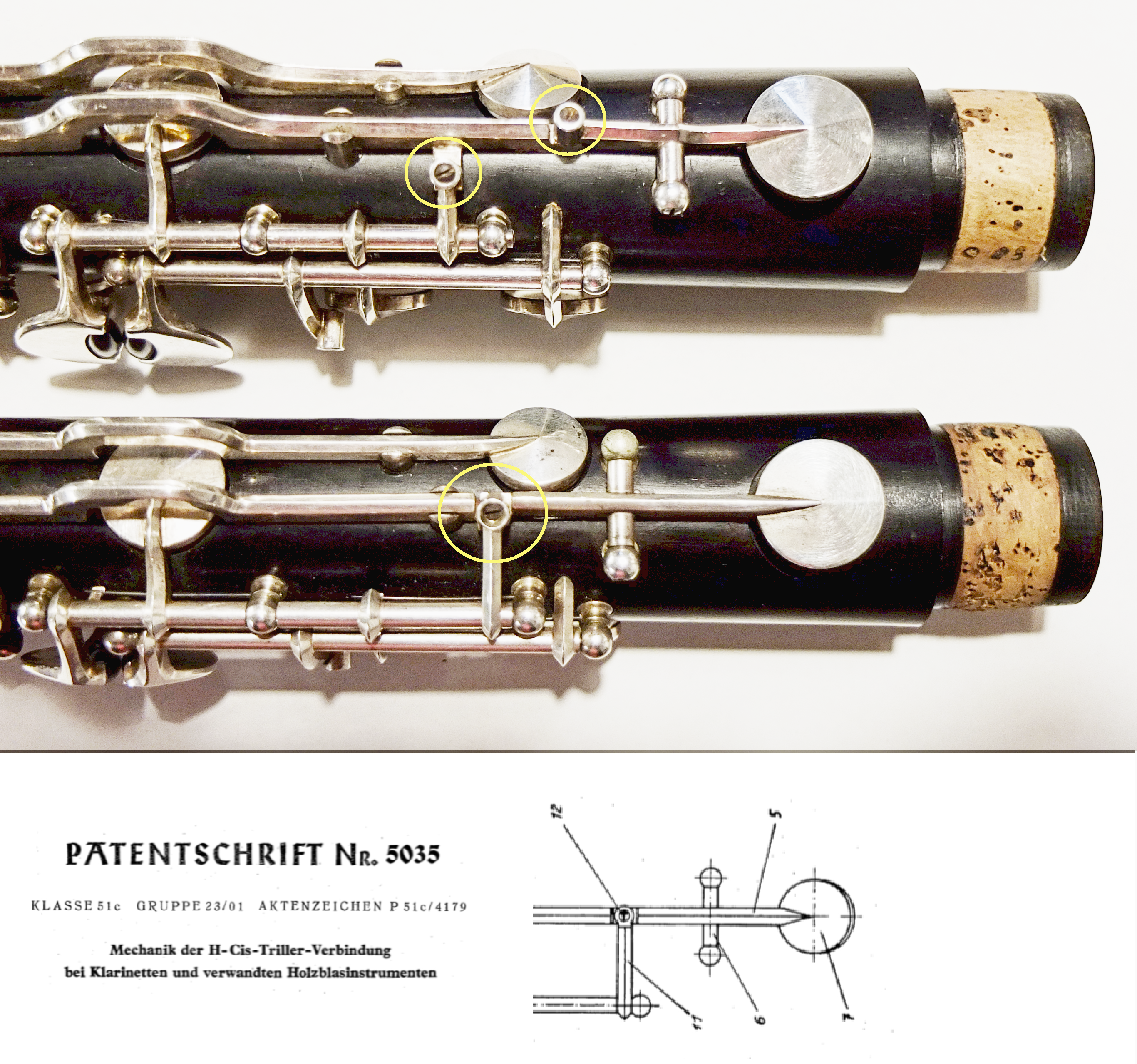 Rudolf Uebel patent as of 1949 for the German clarinet: innovation for the connection of b and c# keys in the lower part of the clarinet. Shown are two Uebel clarinets from the 1990ies ("Serie 2").